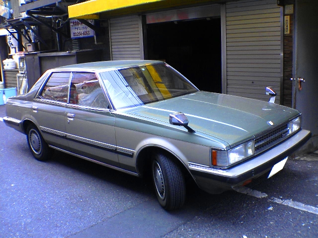 1980-1984 Toyota Cresta (X50/X60).